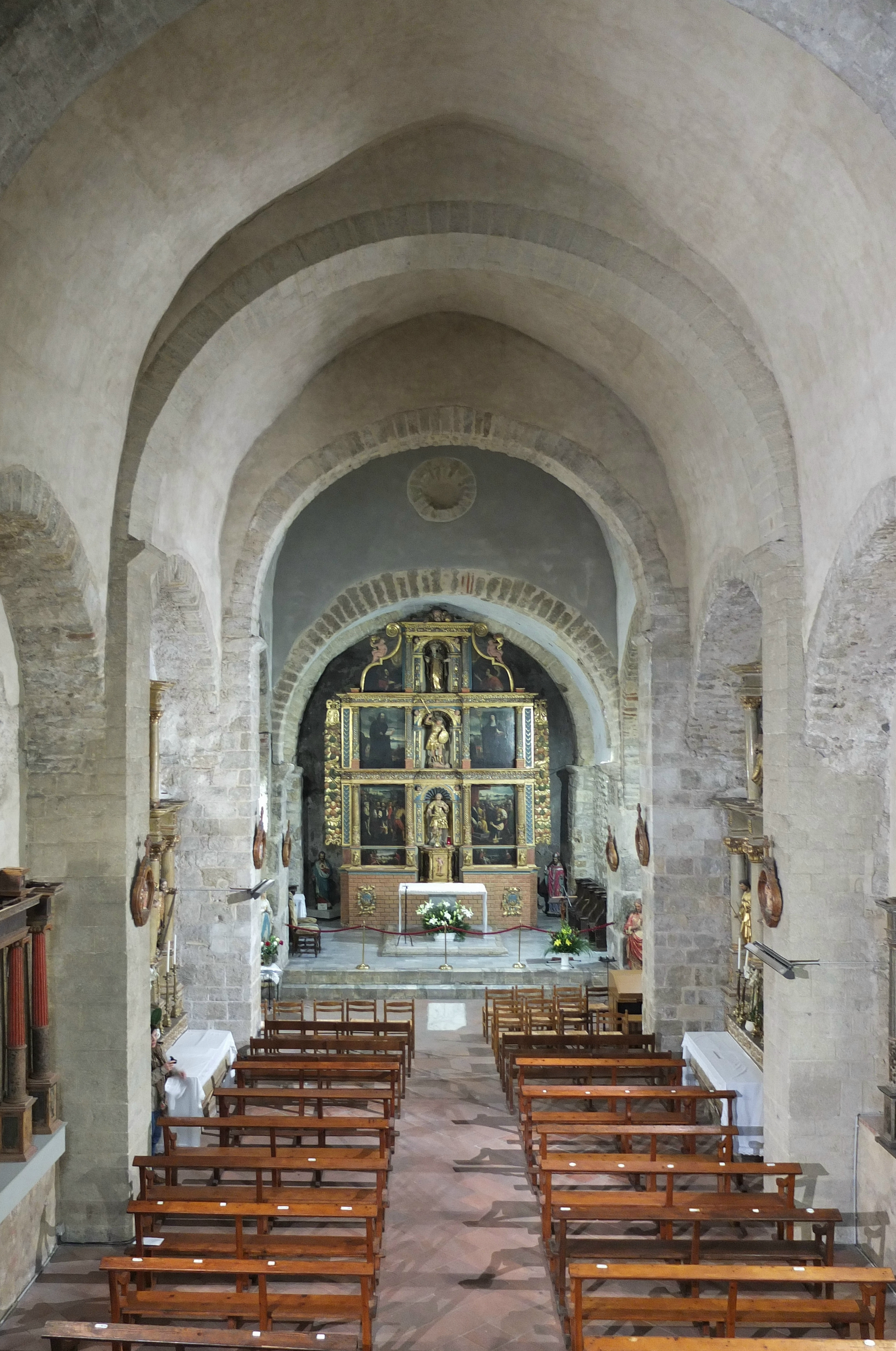 Saint-Génis-des-Fontaines Abbey, 12th century, interior of the Romanesque church: nave. Ministère de la Culture (France): Base Mémoire: APMH00062707